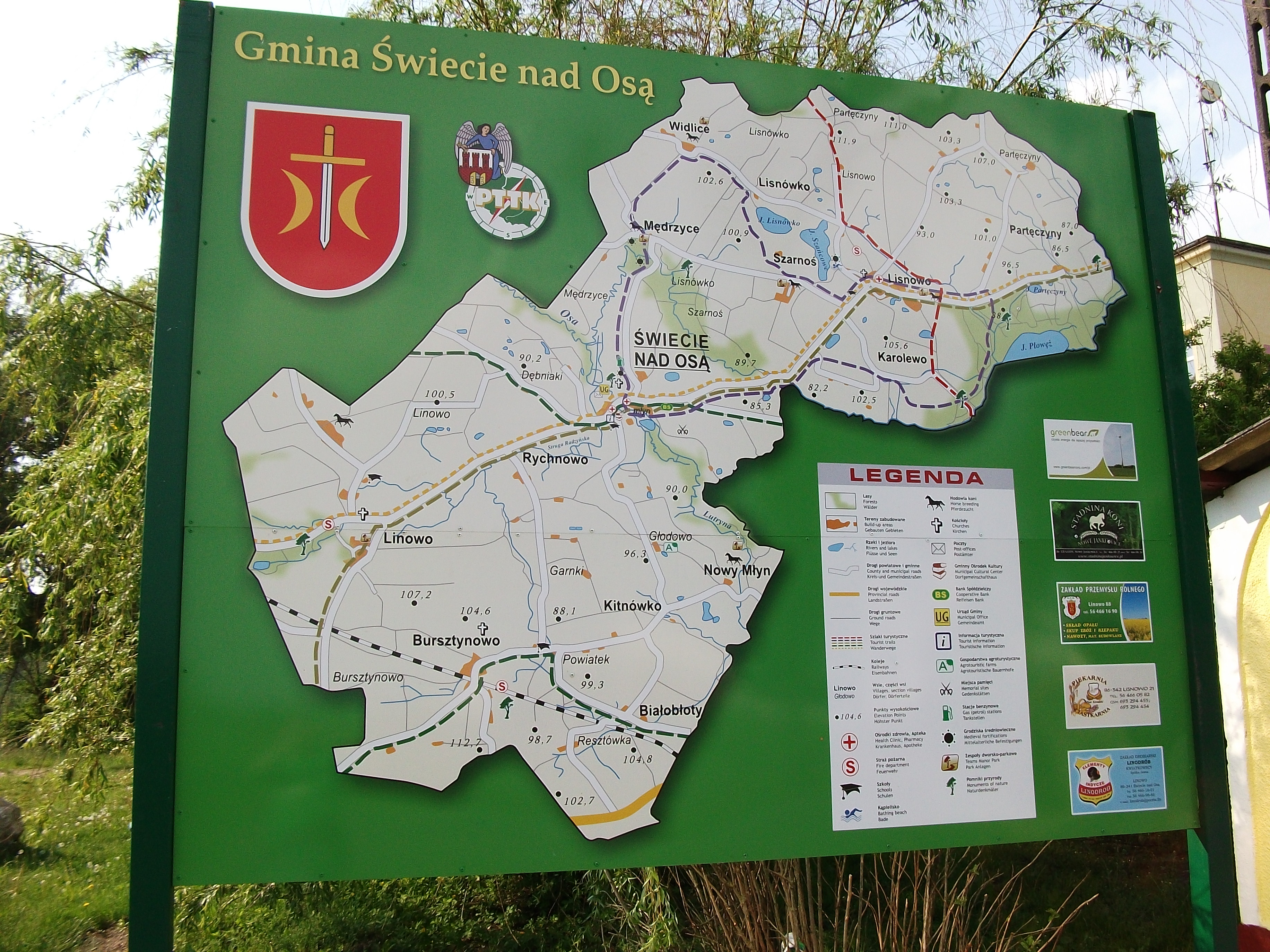 Map of Gmina Świecie nad Osą